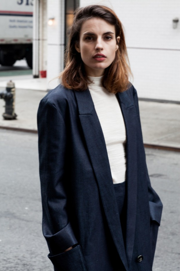 Ana Kras in Derby